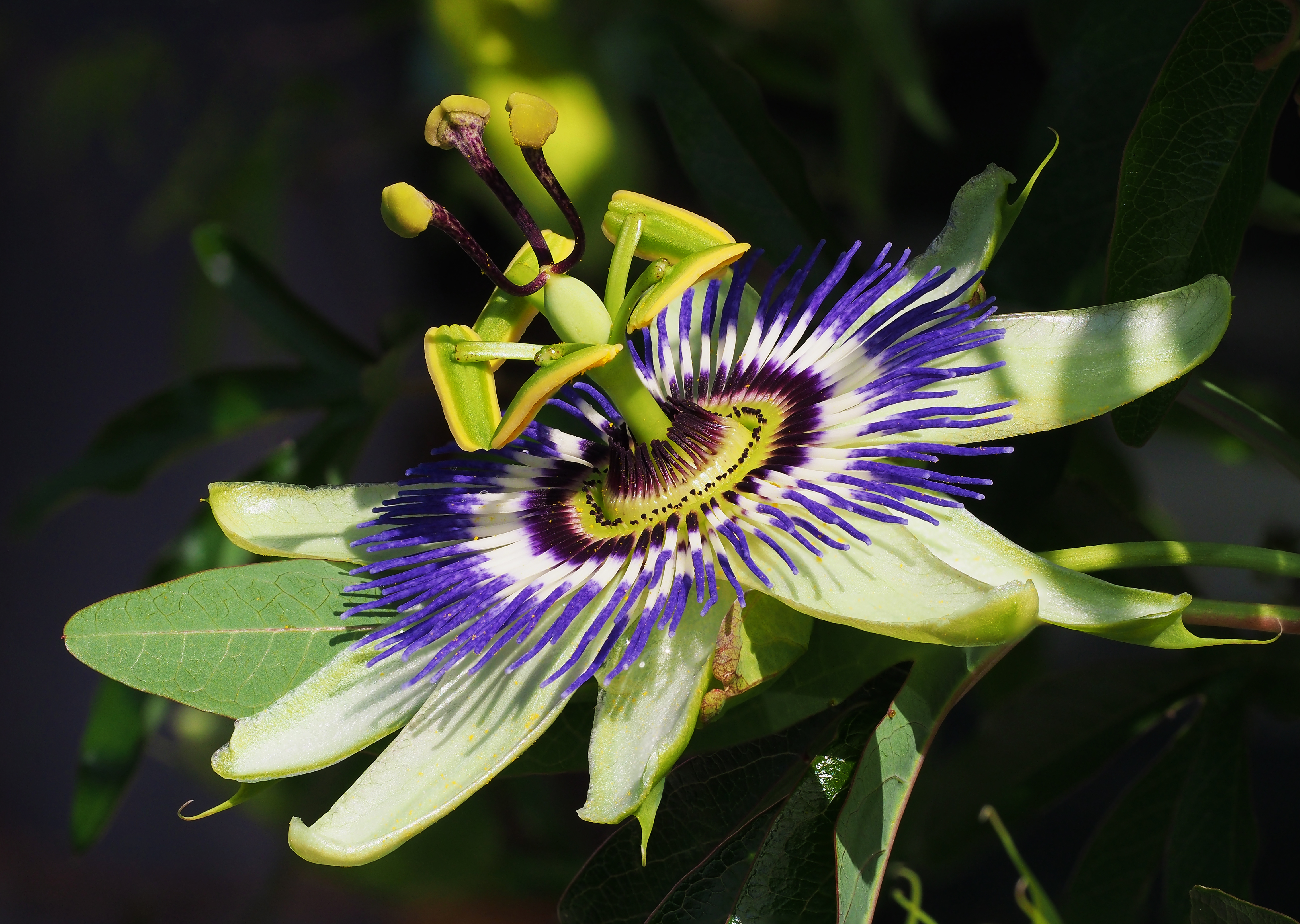 Passiflora caerulea. Ljubljana Botanical Garden, Slovenia. Size of flower around 9 cm. Macro stack of 17 images.